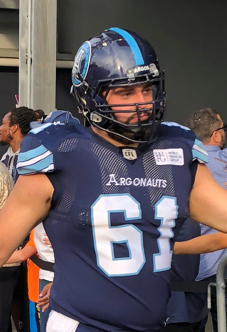 Sean McEwan, Offensive Lineman for the Toronto Argonauts.